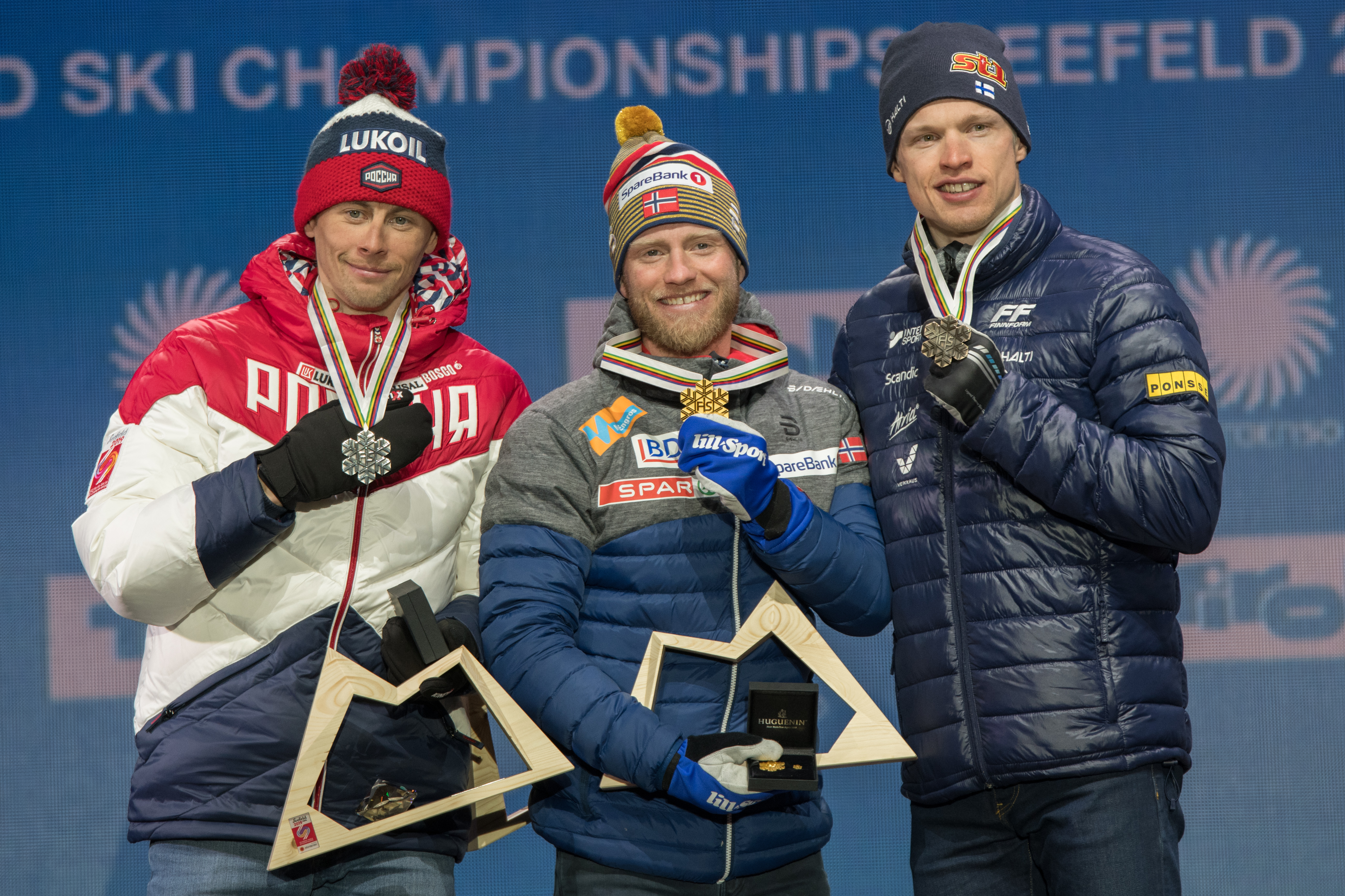 FIS Nordic World Ski Championships Seefeld 2019 - Medal Ceremony at the Medal Plaza. Picture shows Alexander Bessmertnykh (RUS), Martin Johnsrud Sundby (NOR), Iivo Niskanen (FIN).